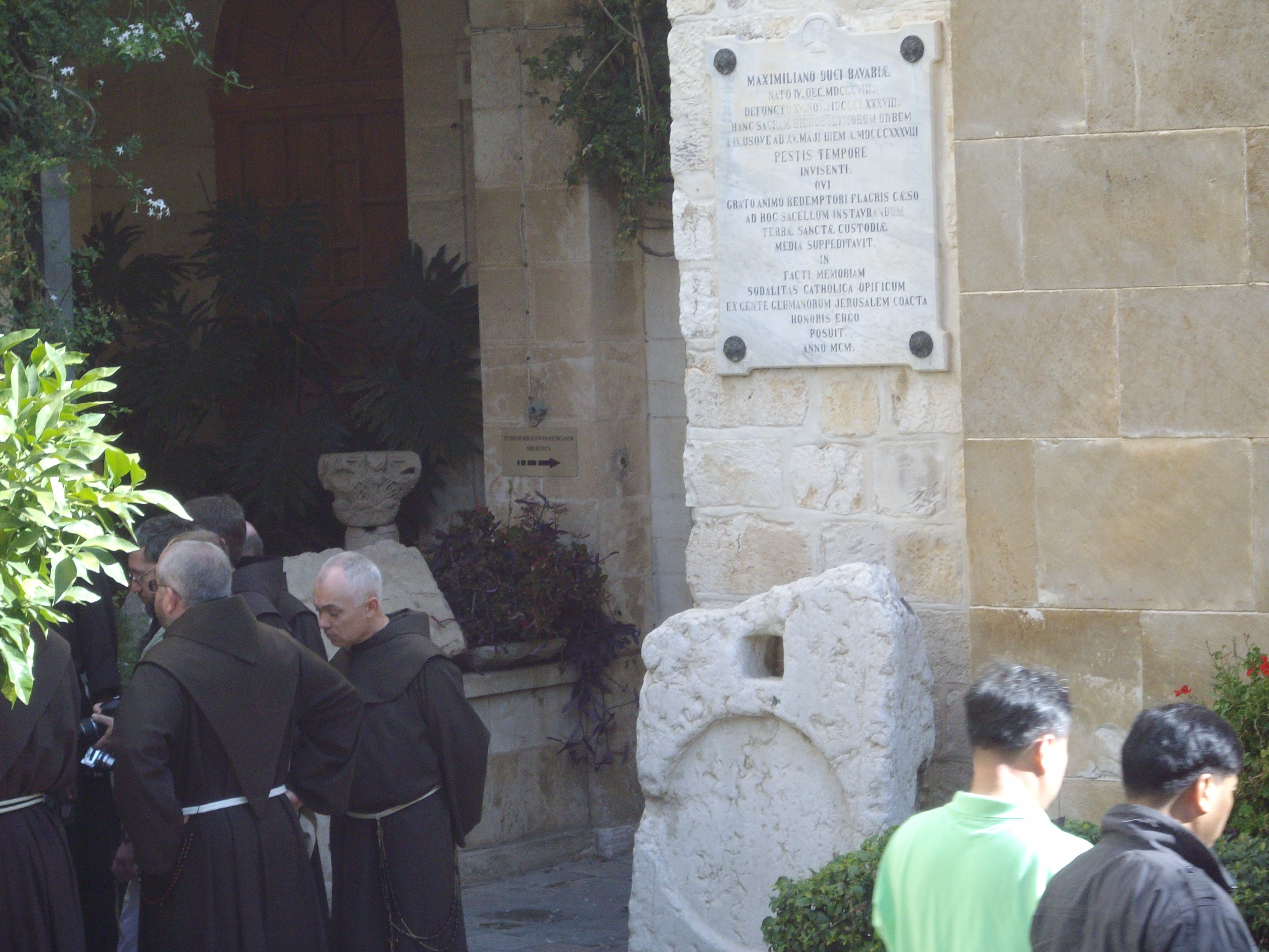 St Antonio's fortress or Monastry of Flagellation on "via Dlorosa route" of Old Jerusalem City.